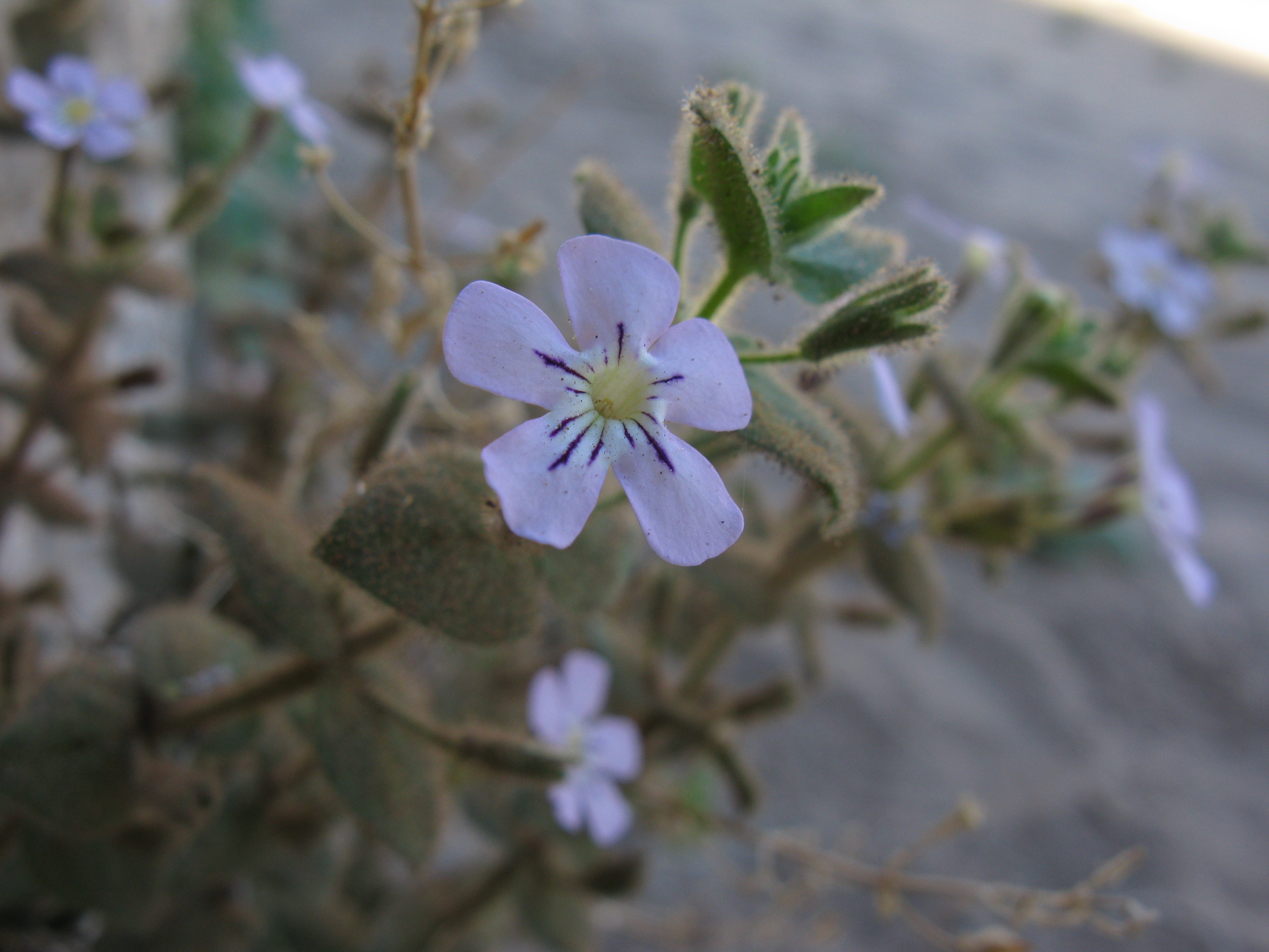 This specimen of Jamesbrittenia maxii (Hiern) Hilliard was growing out of the face of a scree rock in the Fish River Canyon, Namibia. It clearly had been there for some years.